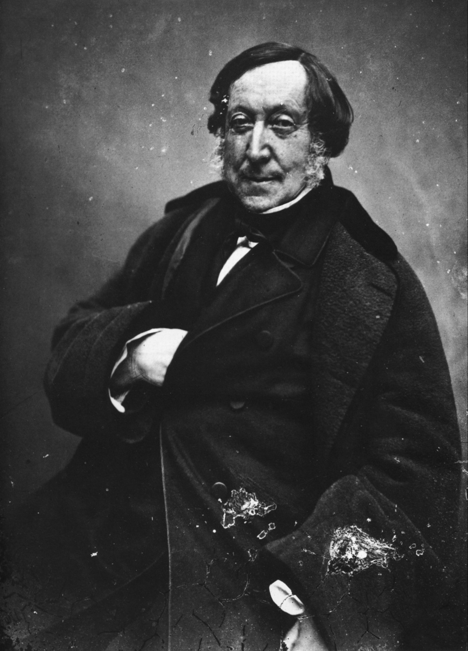 Photography of Gioacchino Rossini by Félix Nadar